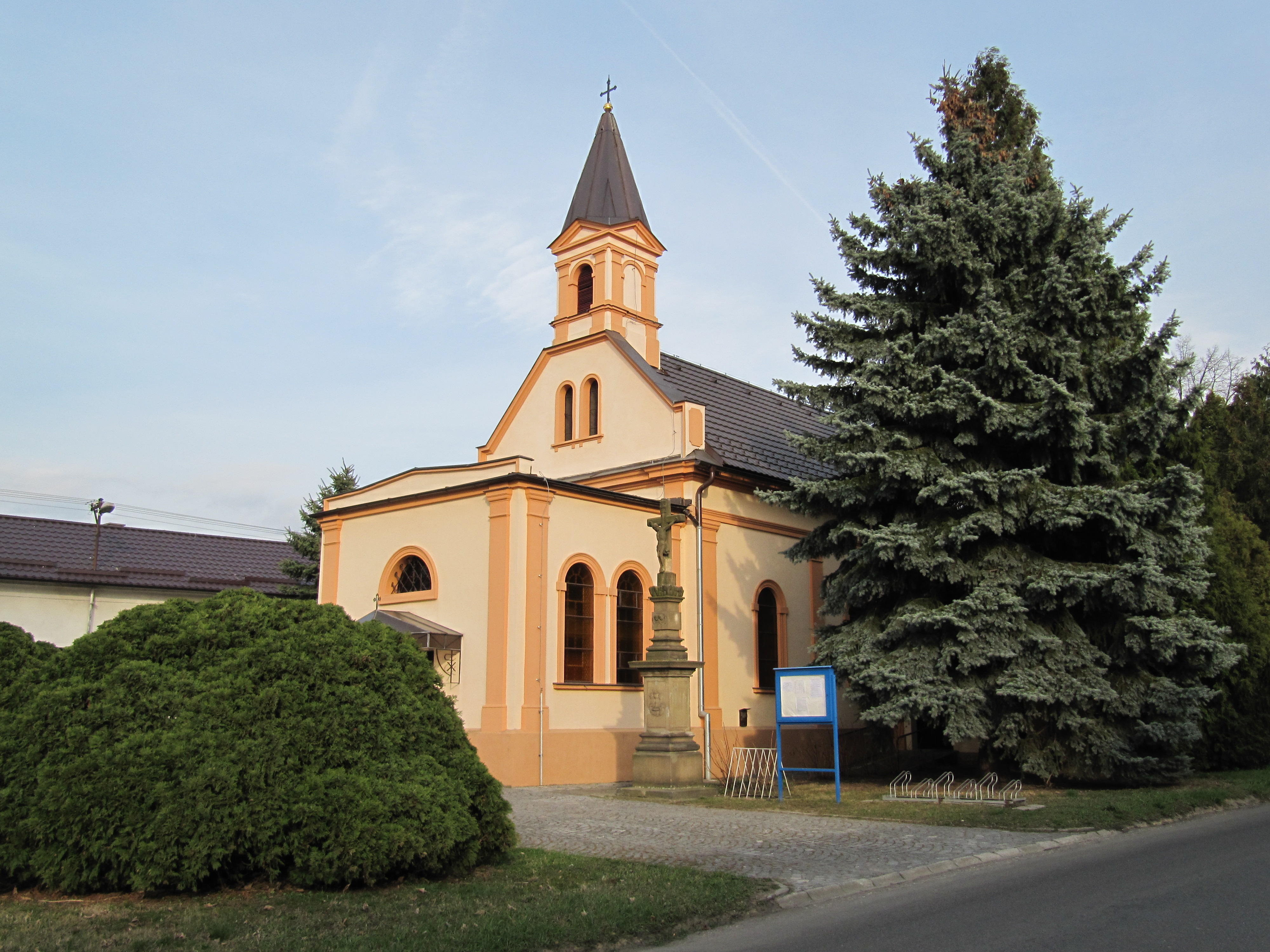 Otrokovice in Zlín District, Czech Republic, part Kvítkovice. Common of the former village Kvítkovice with the church of St. Anne.